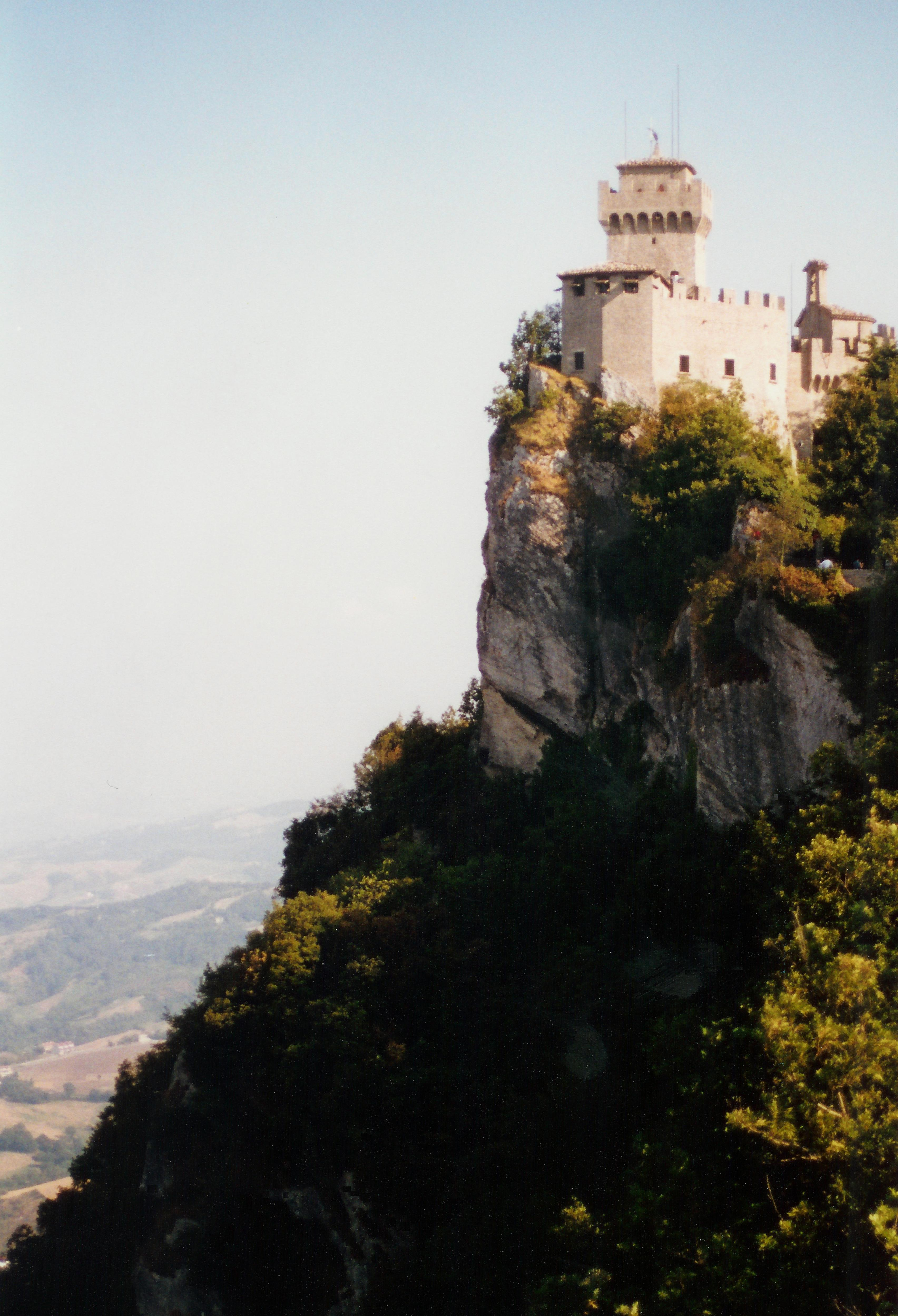 La Seconda Torre o Torre Cesta, San Marino, San Marino The second tower or Cesta tower, San Marino, San Marino